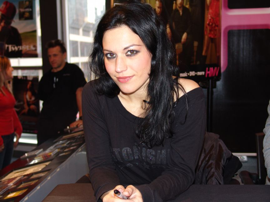 Cristina Scabbia, singer of Lacuna Coil